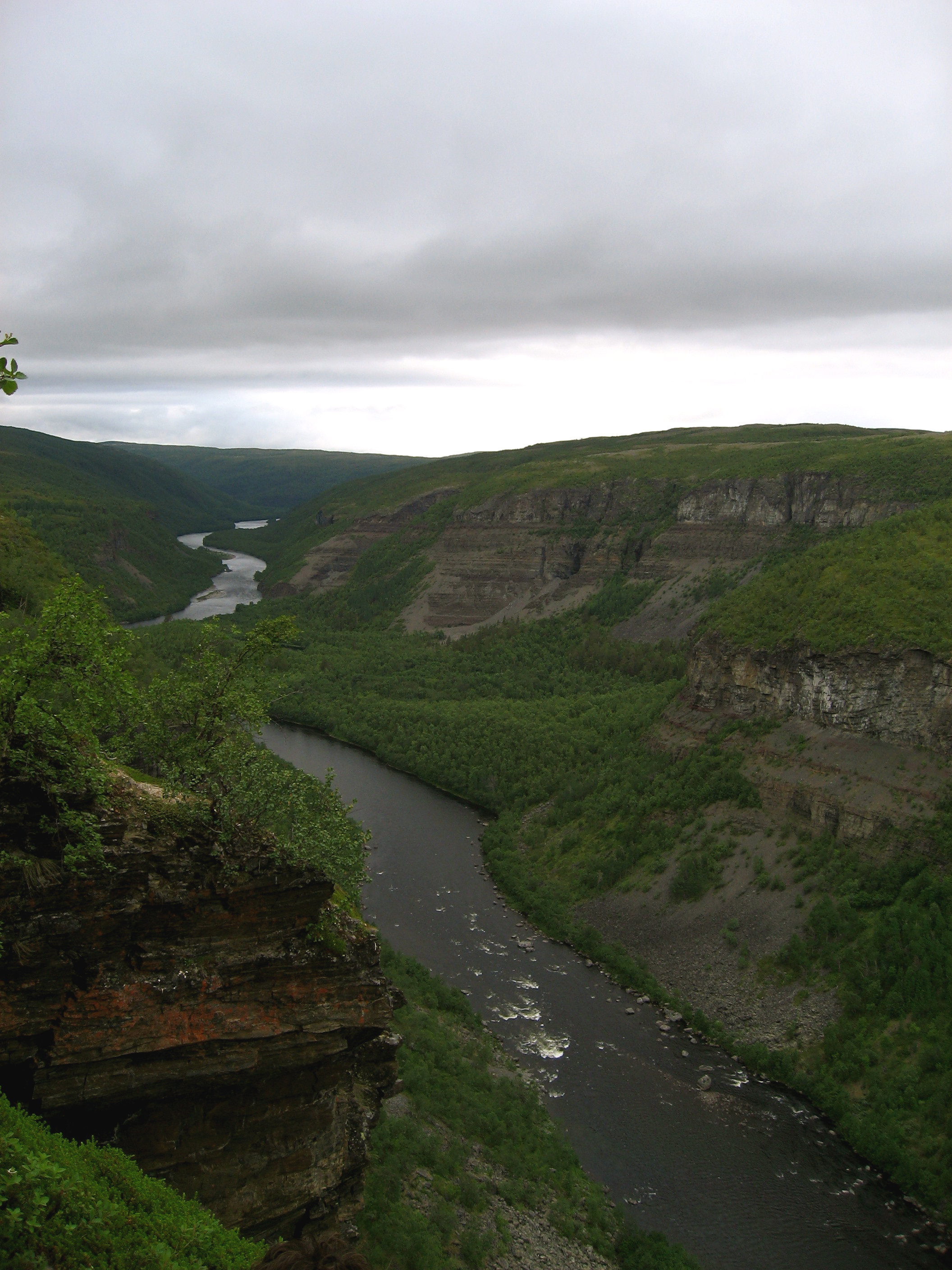 Canyon of Altaelva, Finnmark, Norway.